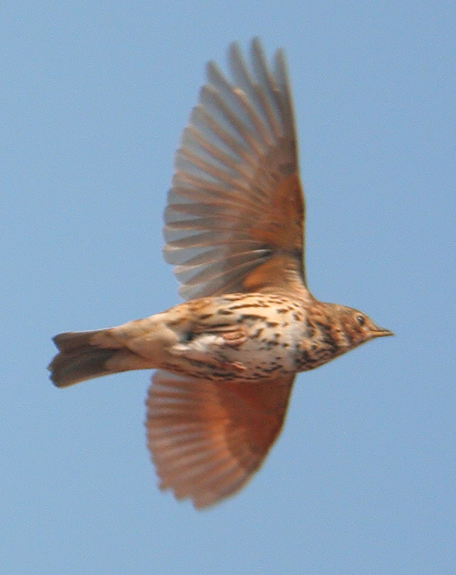 Song Thrush (Turdus philomelos) in flight. Broadstairs, Kent, England, June 2008.